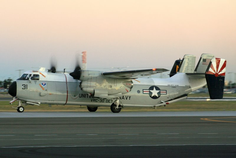 A Grumman C-2 Greyhound COD aircraft of VRC-30 Detachment Five, operating from the aircraft carrier USS Kitty Hawk, taxies at Sydney International Airport in Australia.